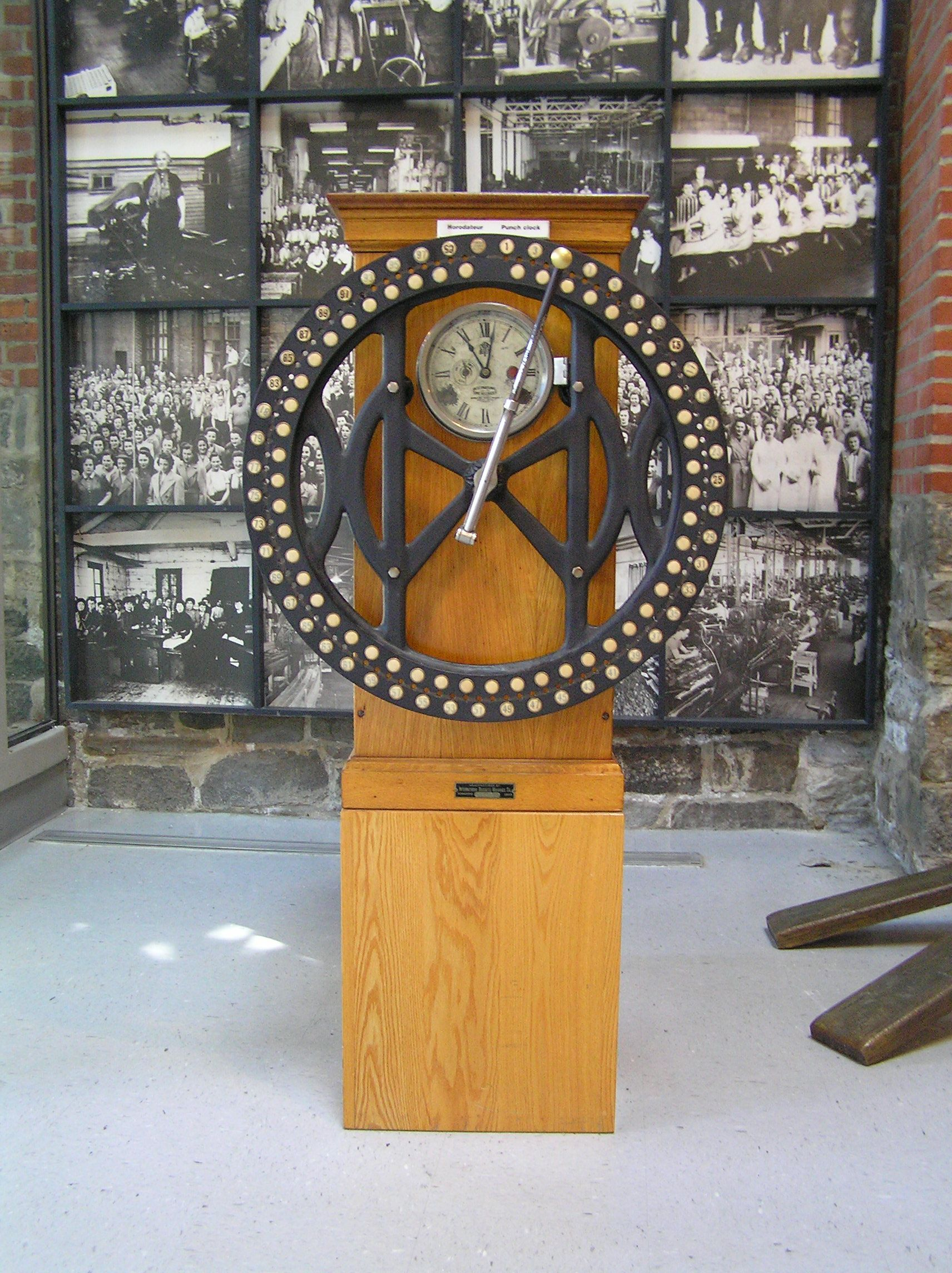 Early twentieth century time clock used to keep track of employee's work hours. Employees would dial the handle to their employee number (1-100) on the face shown here and push the lever. A mechanism inside the box would encode the day, time, and employee number and print it on a roll of paper. Photo taken in the Artillery Park in Quebec City, Quebec, Canada by Yannick Trottier in 2006